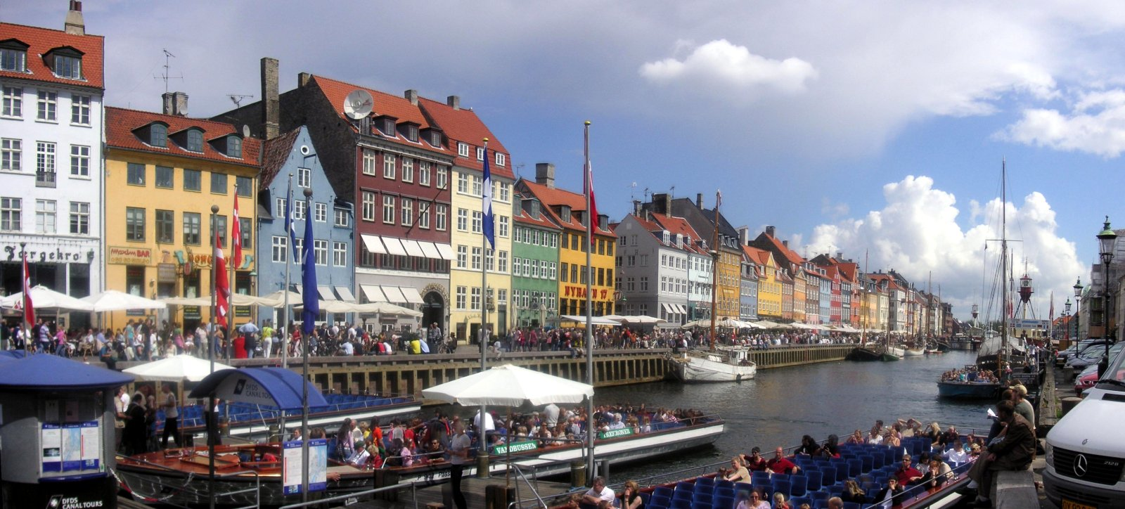 Nyhavn in Copenhagen.